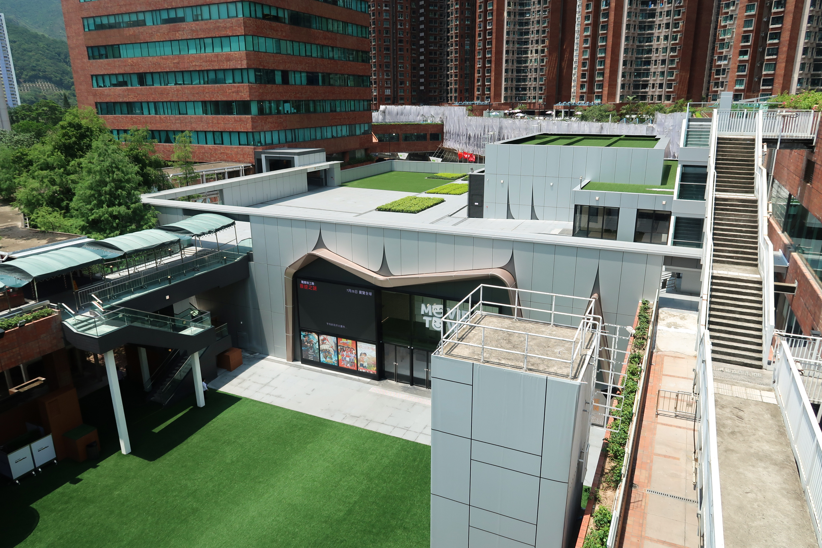 New Town Plaza Cinema Complex